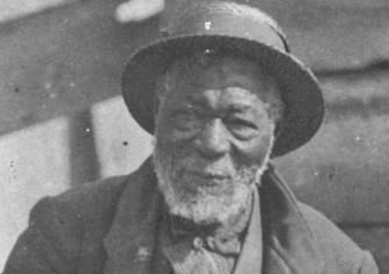 Jim Henson, escaped slave, circa 1888